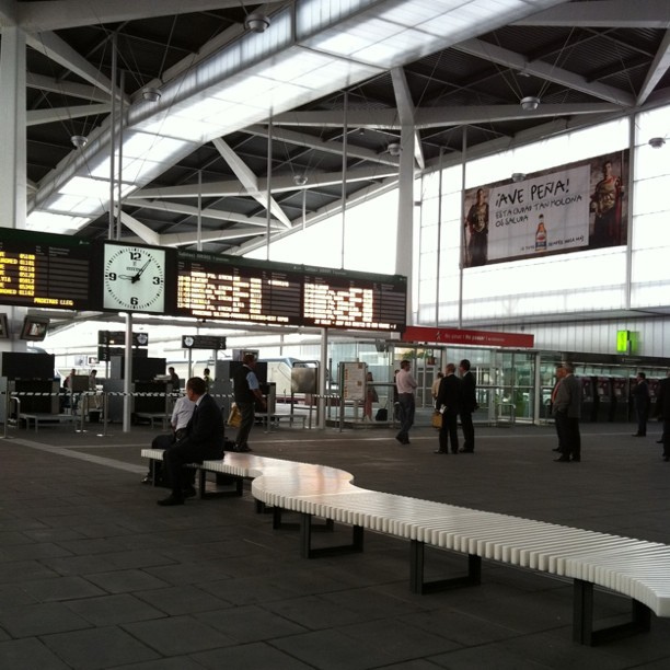 Provisional HSR station Joaquim Sorolla in Valencia (Spain)